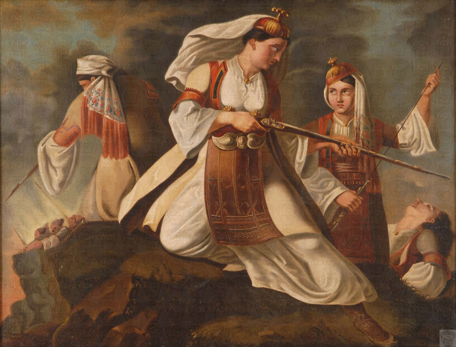 Women of Suli